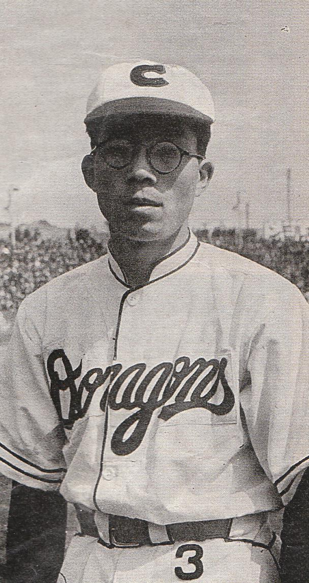 A professional baseball player from Japan, Toshimichi Kunieda.